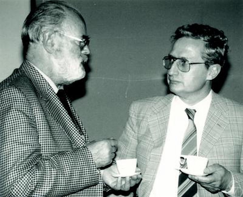 Konrad Jacobs (left) and Ulrich Krengel at the Otto Haupt Kolloquium, Erlangen 1987